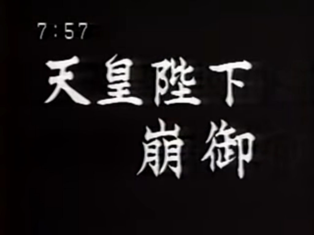 NHK aired this card on television at 7:57 AM on 7th January, 1989. It said "His Majesty the Emperor Departed" (Tennō Heika hōgyo).